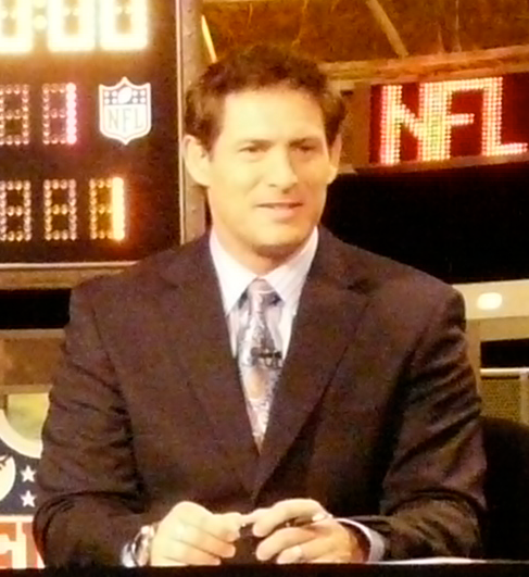 ESPN's broadcast set for the 2009 National Football League Draft. From left to right, Mel Kiper Jr., Keyshawn Johnson, Steve Young, and Chris Berman.